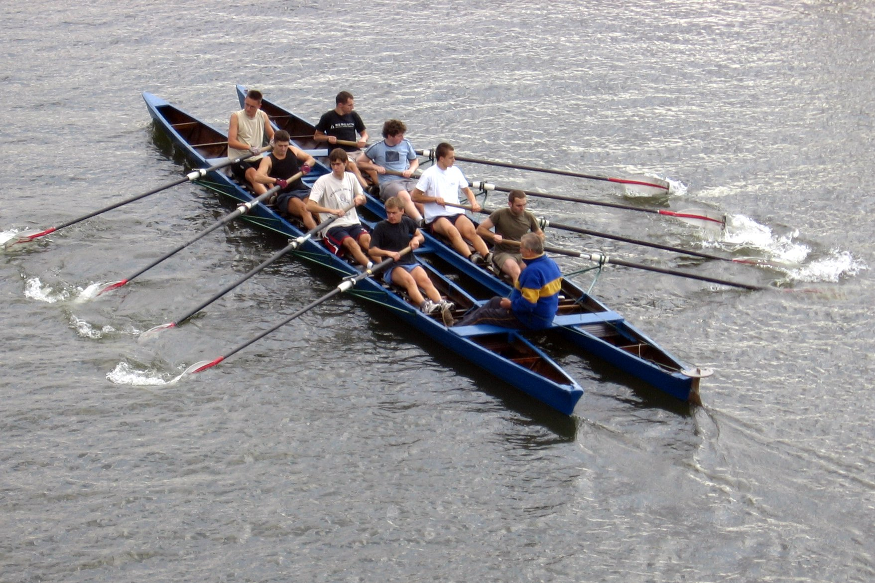 oar training on the Odra River in Wrocław